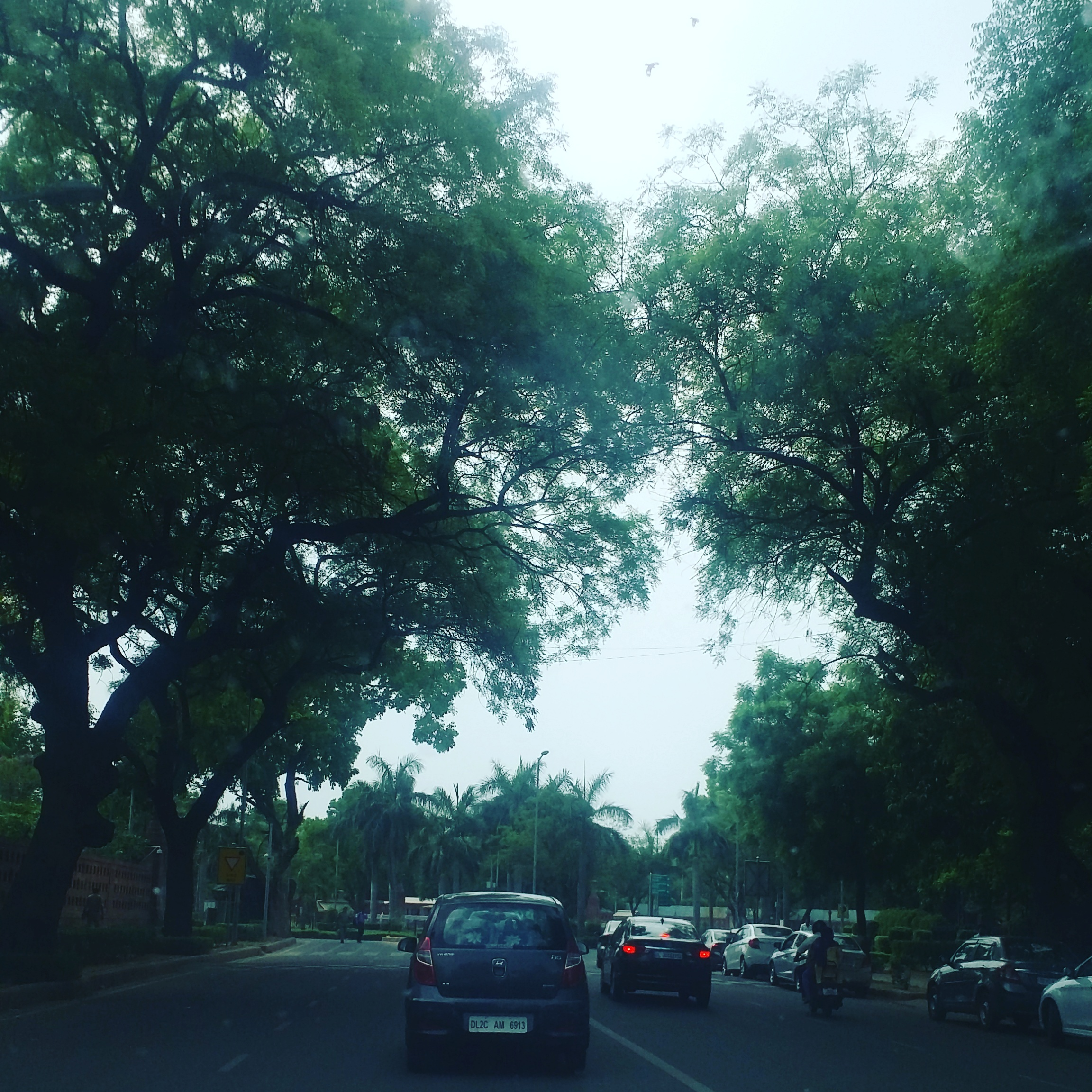 The roads still represent that trees are important